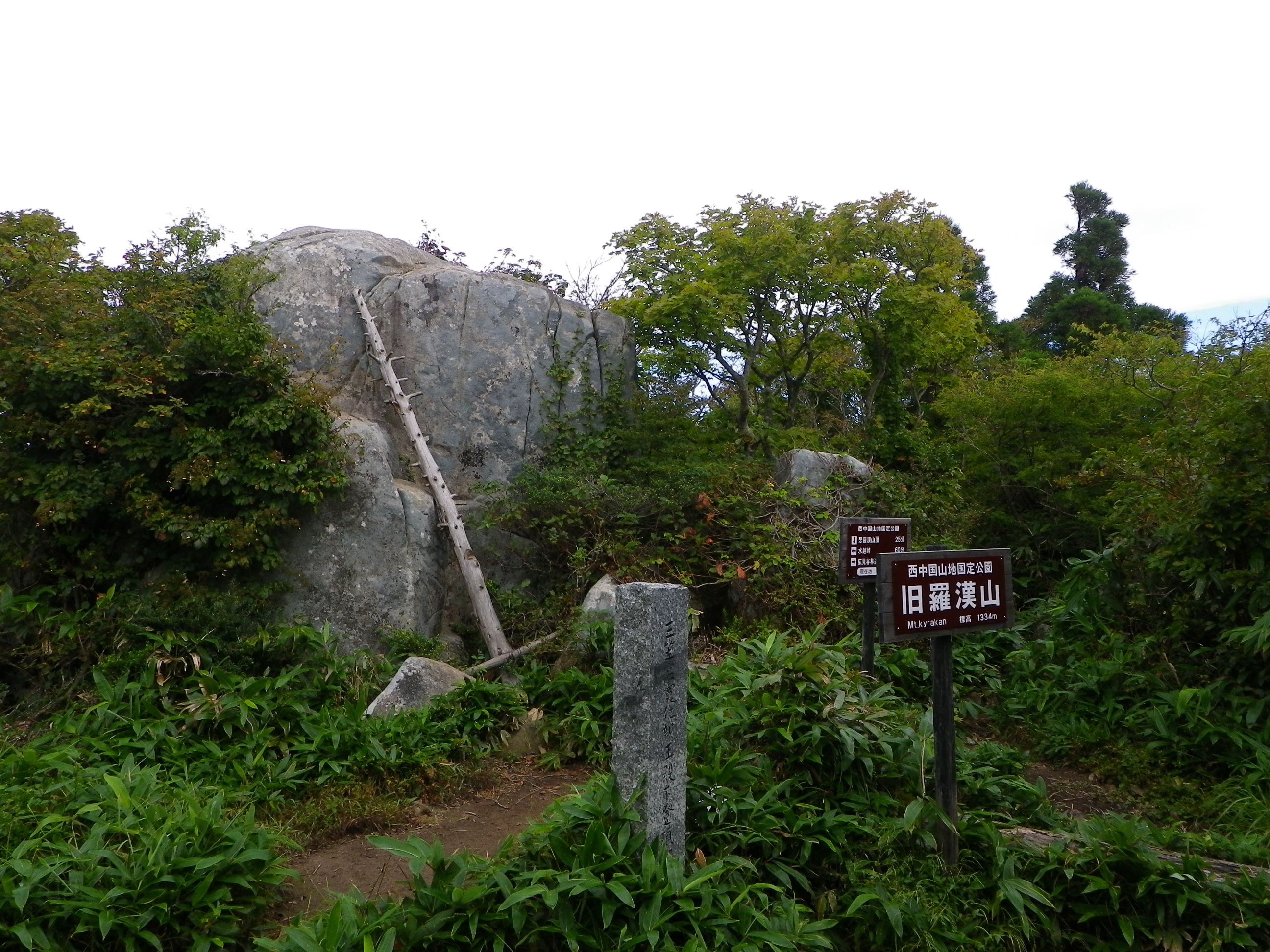 Mt.Kyurakanzan